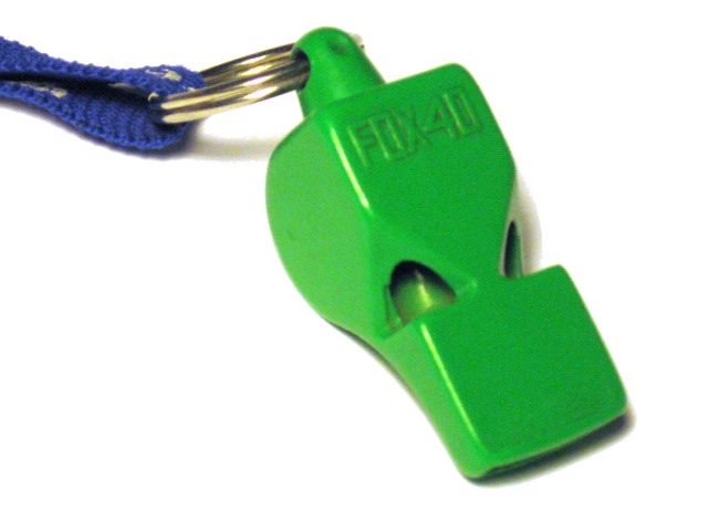 A Fox 40 whistle from the late 1980s.